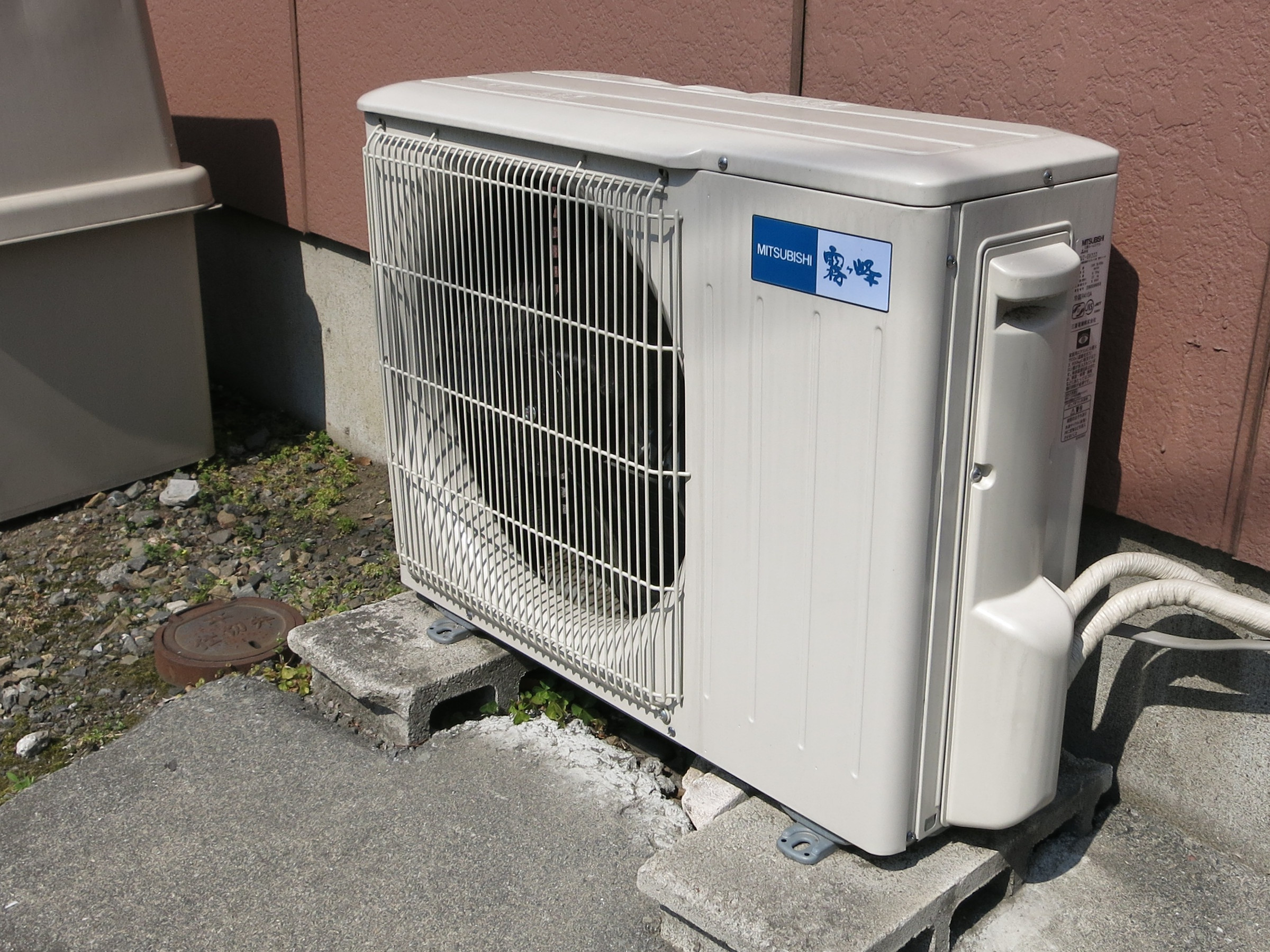 An air conditioner unit resting on the ground outside.